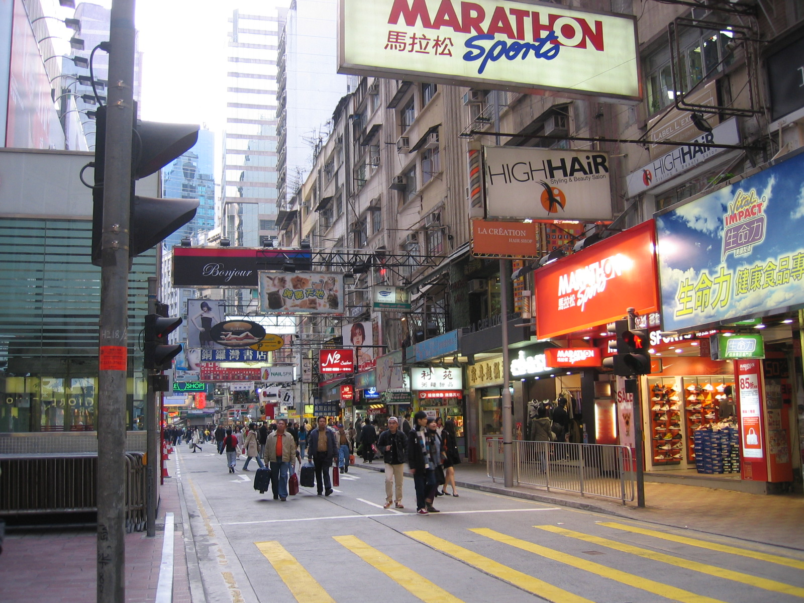 Lockhart Road, Causeway Bay, Hong Kong.